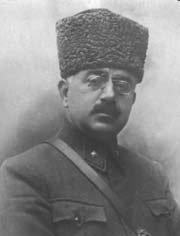 Ali Hİkmet Pasha (Ayerdem)